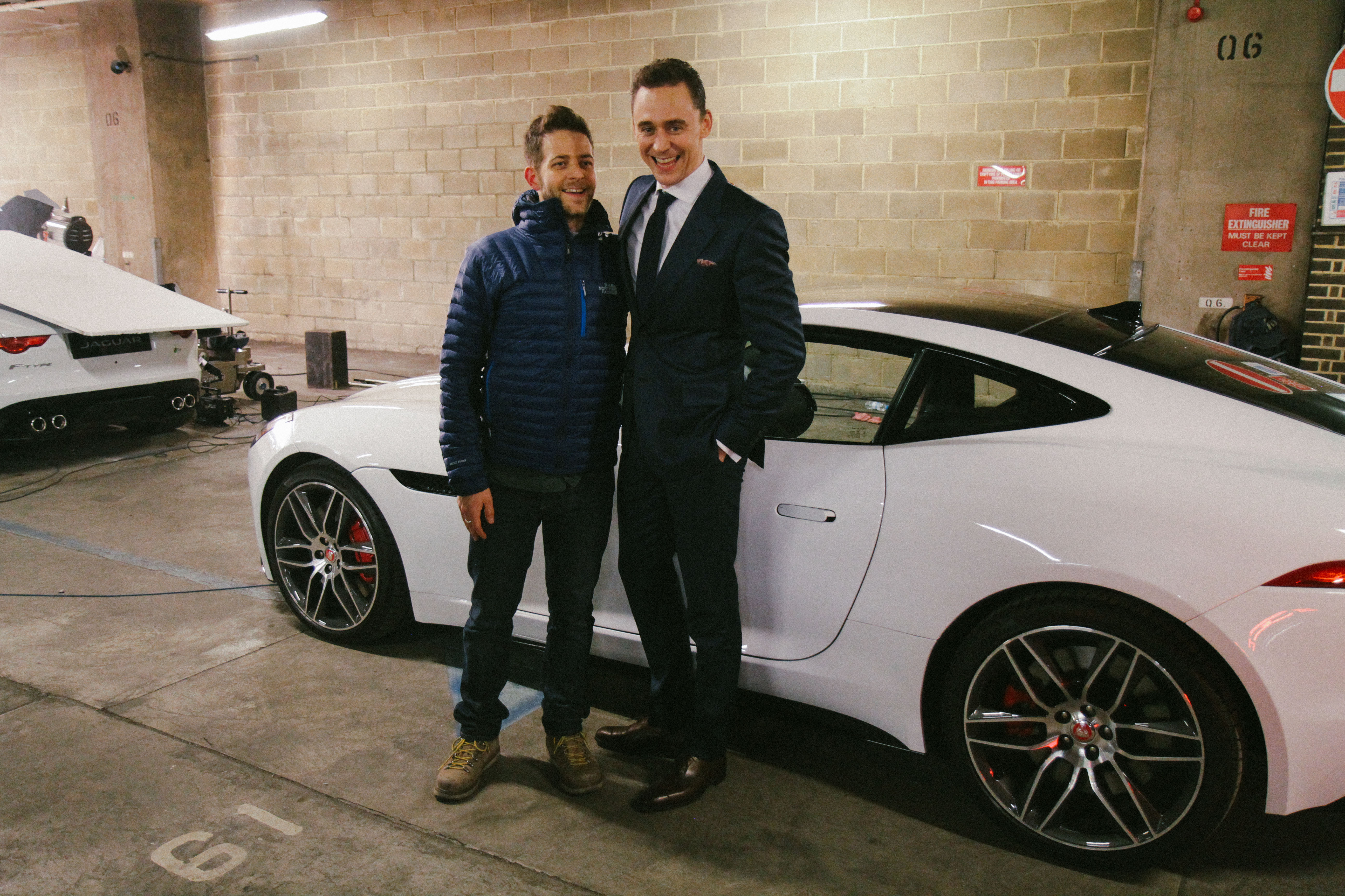 Actor Tom Hiddleston and director Mark Jenkinson on the set of the Jaguar F-TYPE commercial. Filmed on February 15, 2014